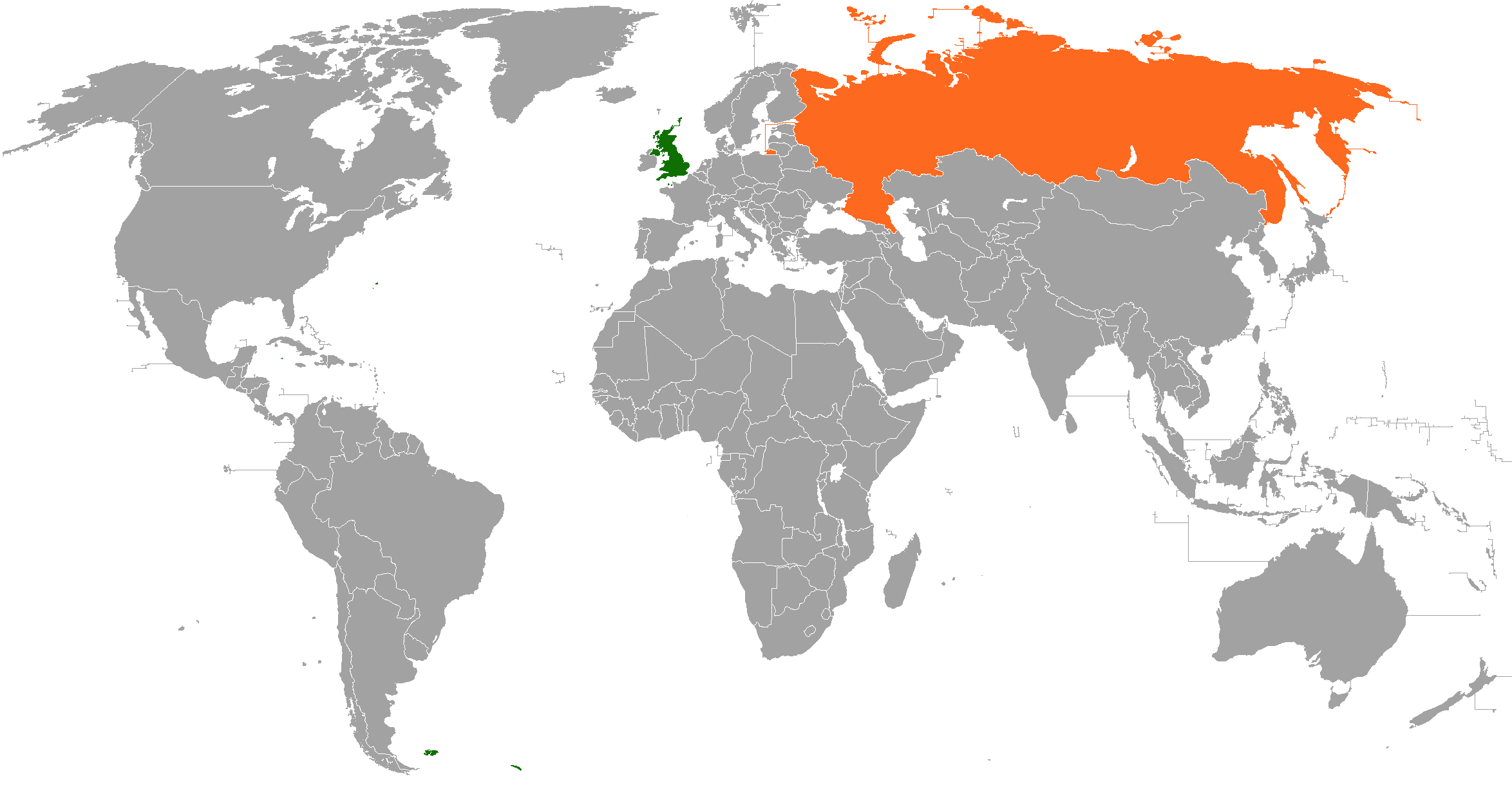 location of uk & russia, standard format of bilateral relations maps